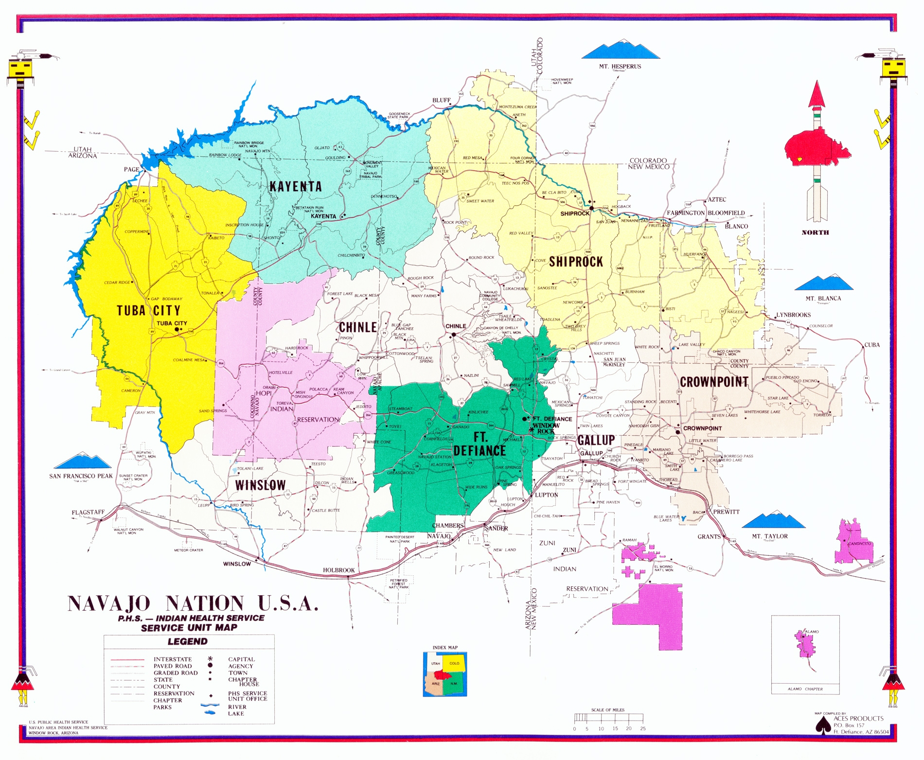 Districts of the Indian Health Service as applied to the Navajo Nation territory